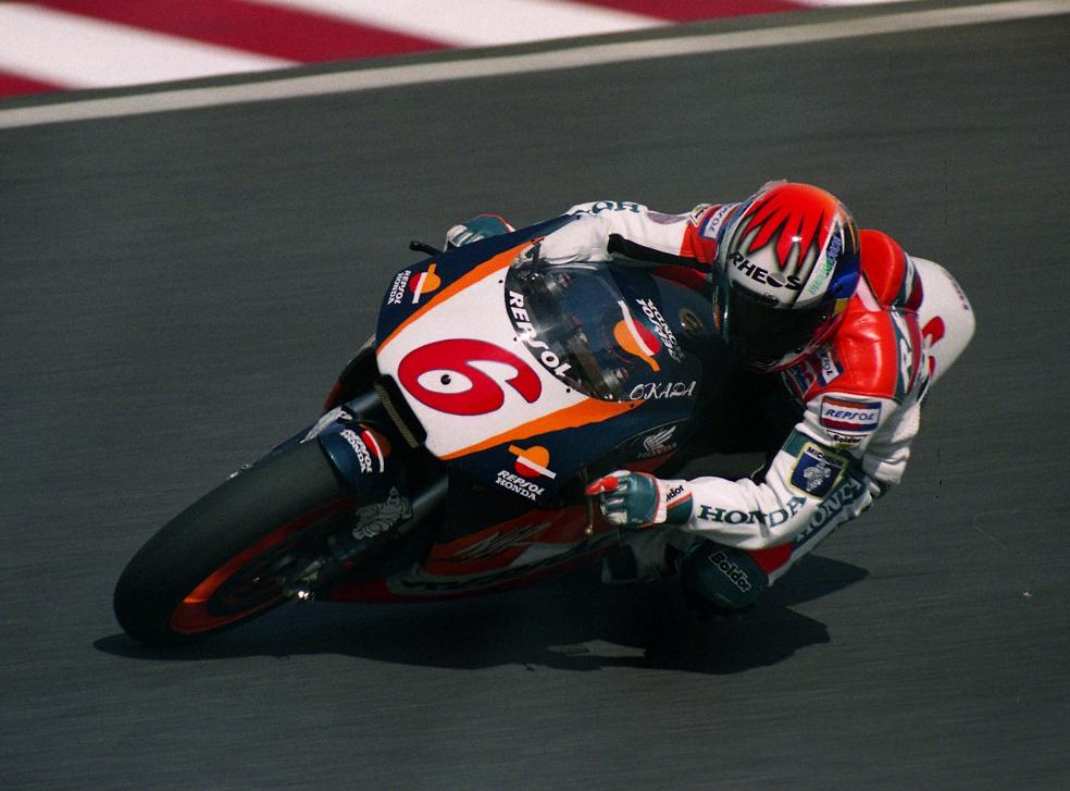 Tadayuki Okada, in Japan Grand Prix 1996